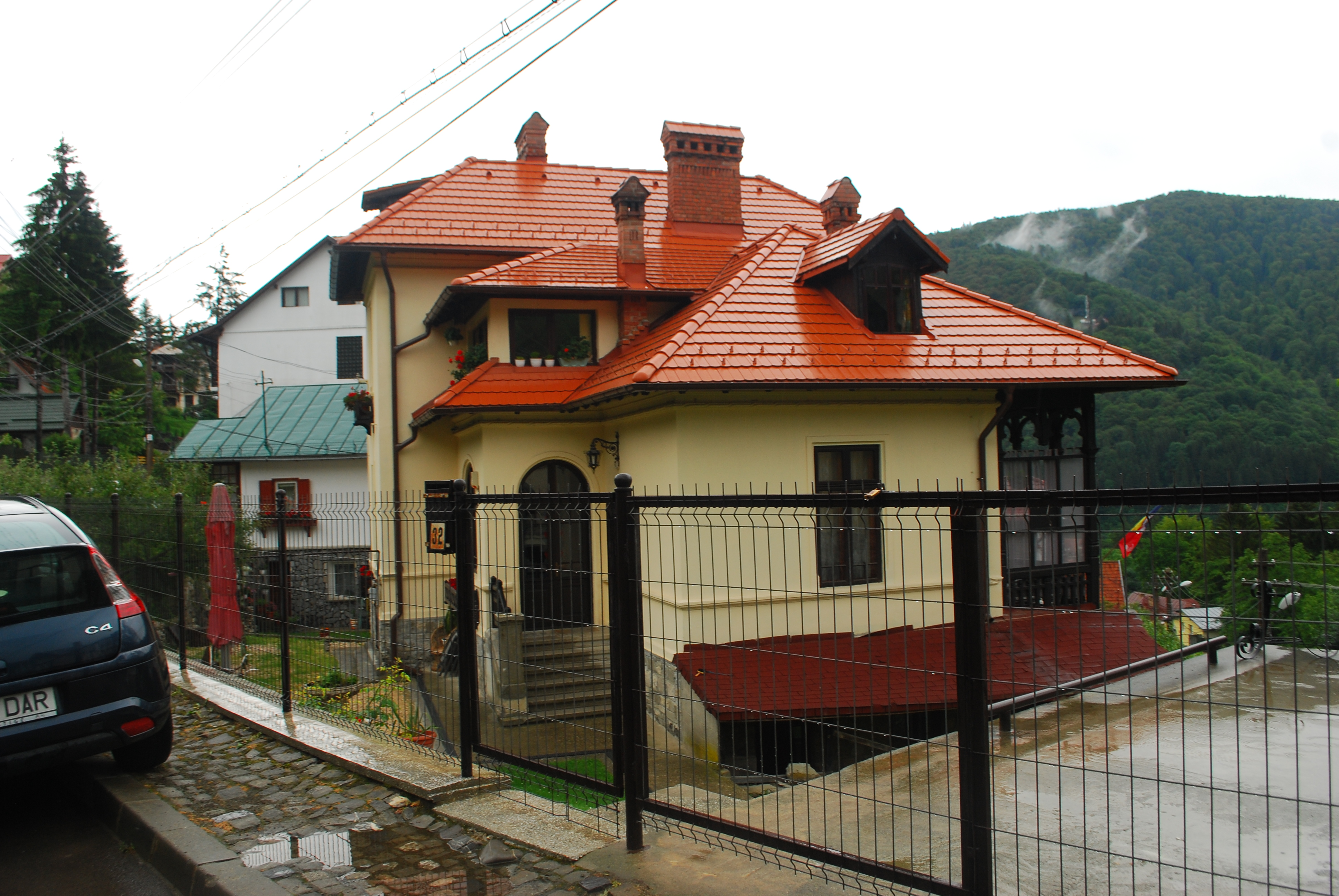 Rudolf Knopp villa in Sinaia, Prahova County, Romania